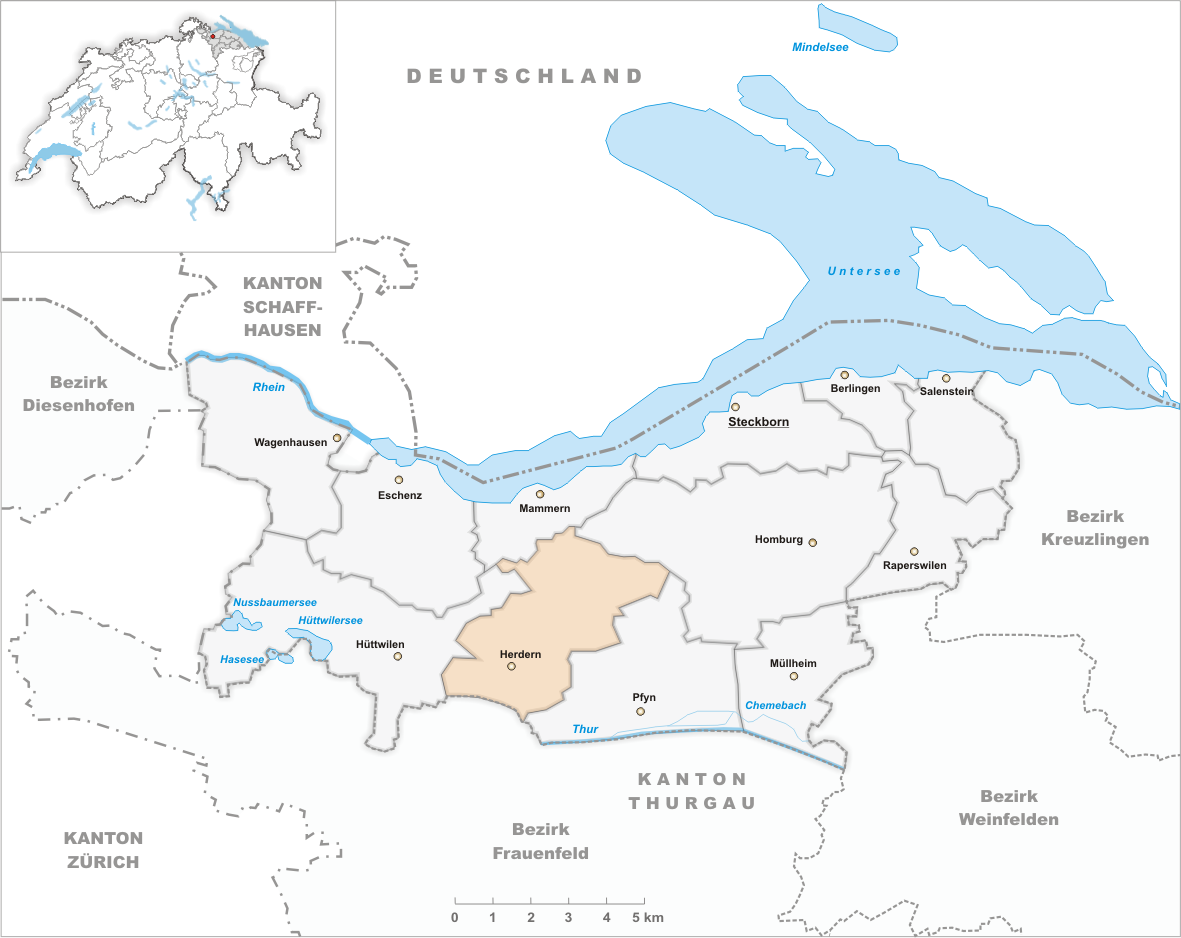 Municipality Herdern